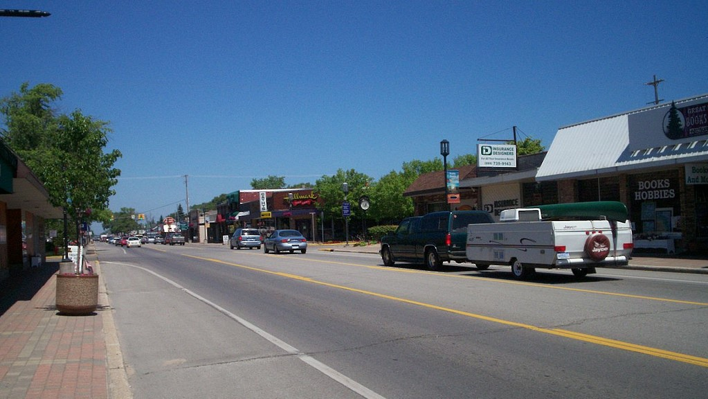 Downtown Oscoda, looking northbound on US-23.